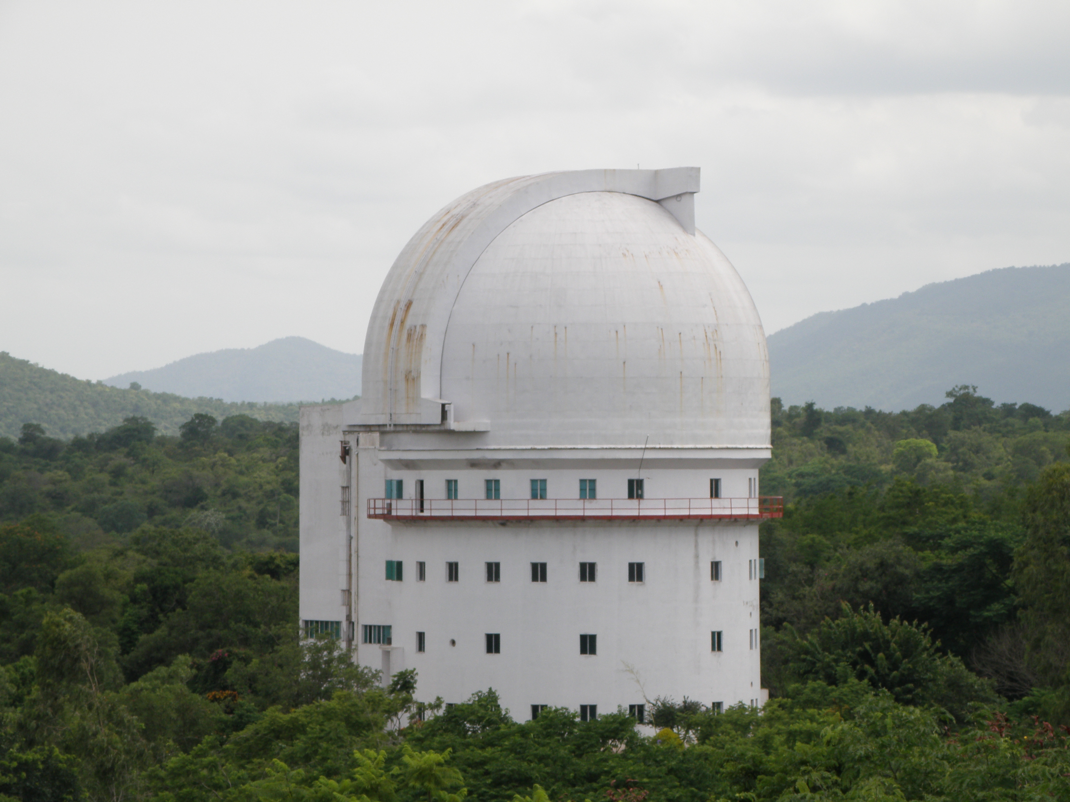 93-inch telescope seen from the 40-inch telescope at Vainu Bappu Observatory.